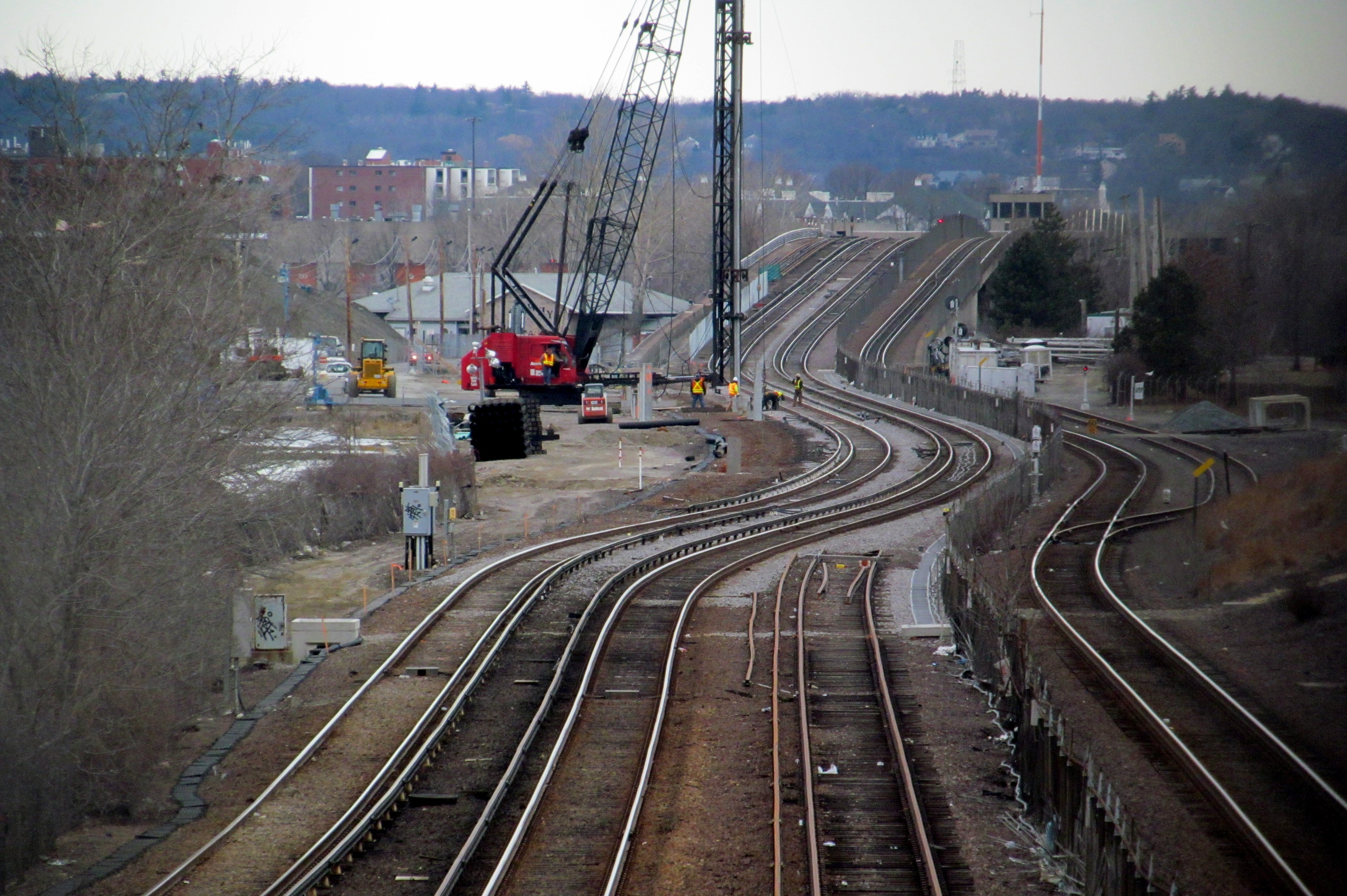 Construction work on the Assembly Square station in January 2013. The inbound and outbound direction have been shifted to the outbound and express tracks, respectively.